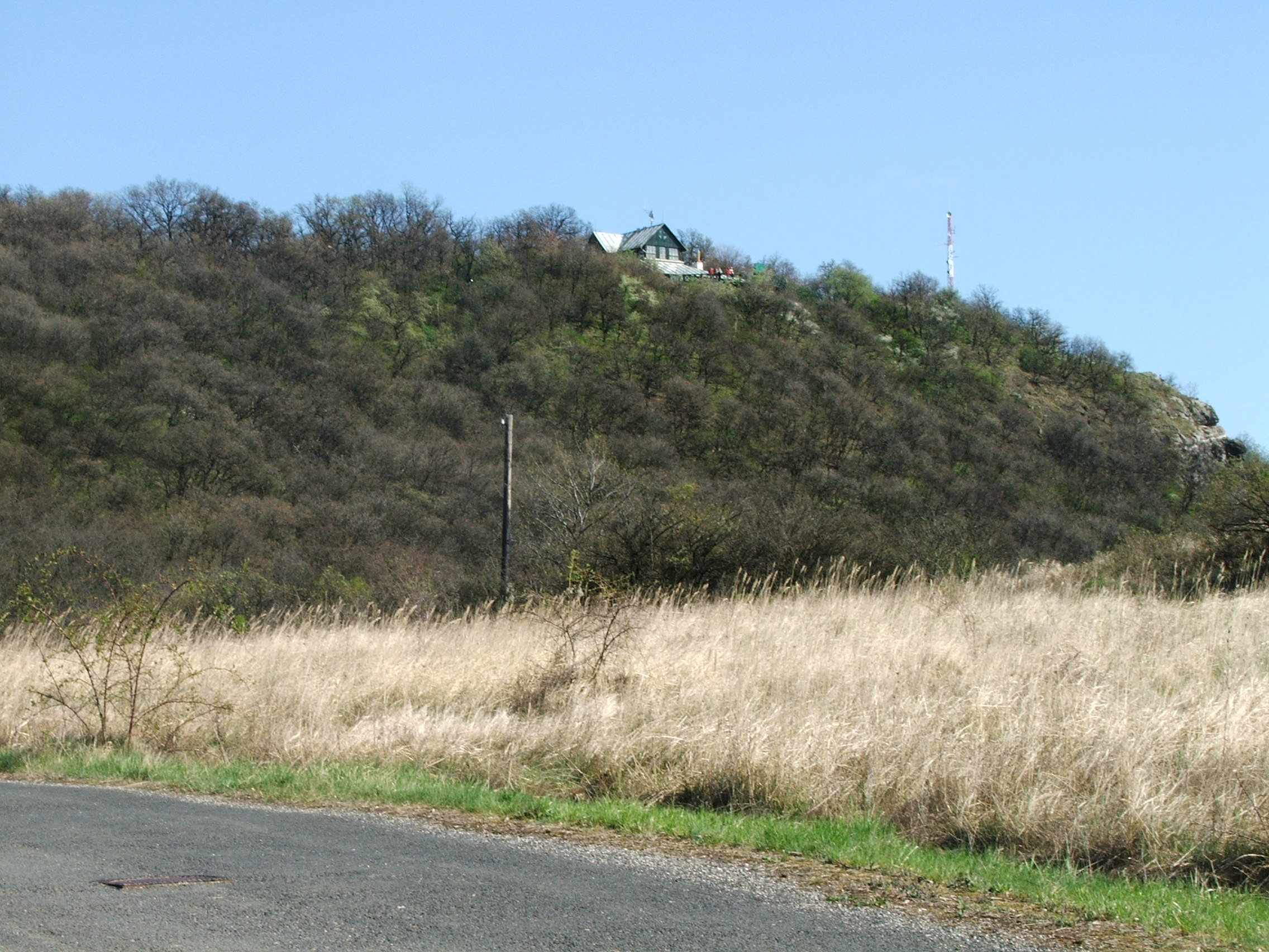 A shot of the Vaskapu hill / almost at the top